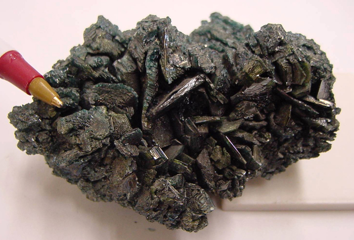 Synthetic Moissanite (SiC), Mineral collection of Brigham Young University Department of Geology, Provo, Utah.